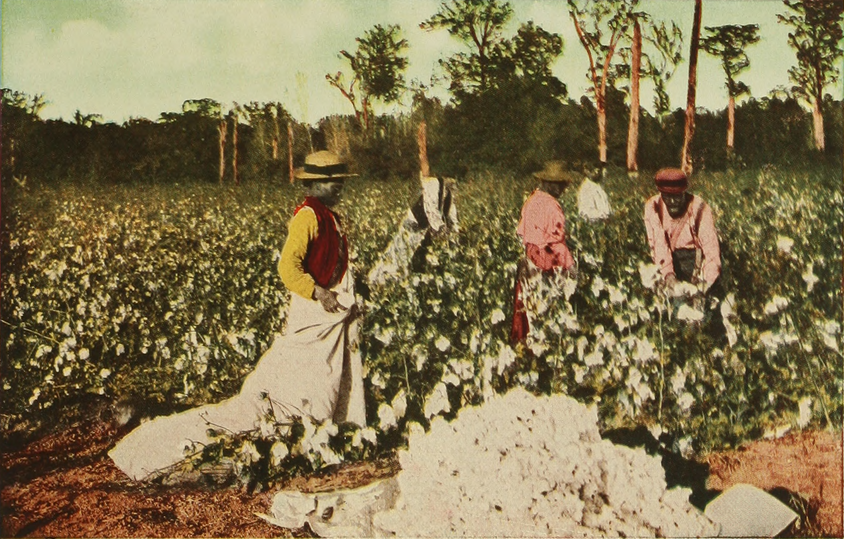 An illustrated depiction of African American people picking cotton, 1913 - From "Houston: Where Seventeen Railroads Meet the Sea" Page 31/40 "Cotton Pickers in the Field. Houston Is the Largest Inland Port Cotton Market in the World, Handling Nearly 3,000,000 Bales Annually."